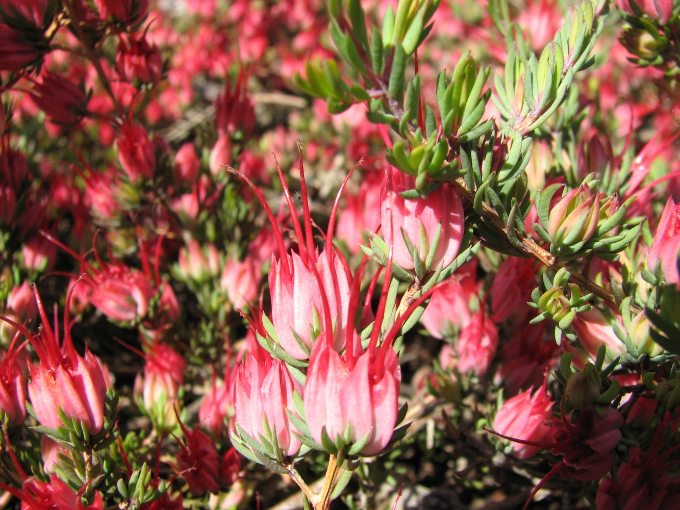 Darwinia taxiflora subsp.macrolaena (cultivated, labelled) Australian Garden, Royal Botanic Gardens Cranbourne, Victoria, Australia